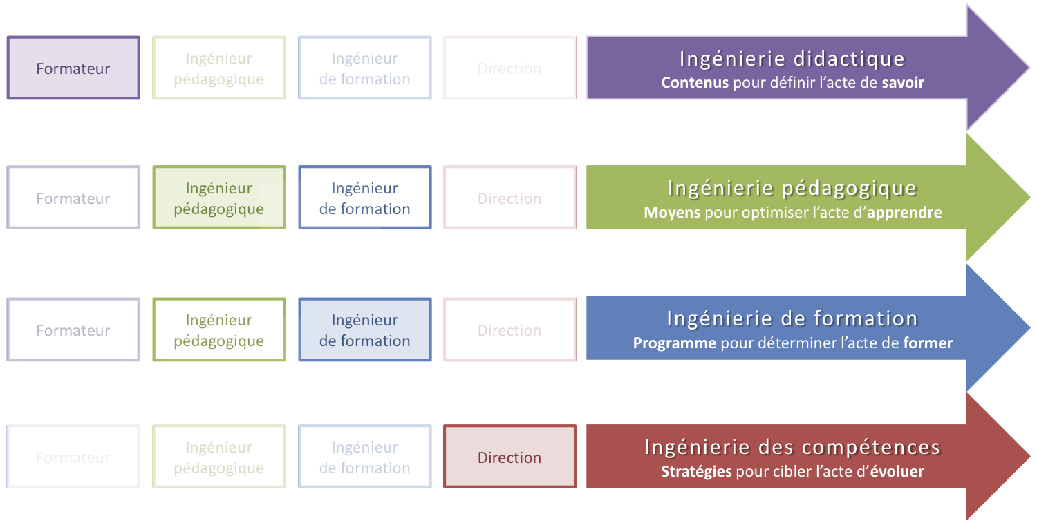 The various engineering skills development